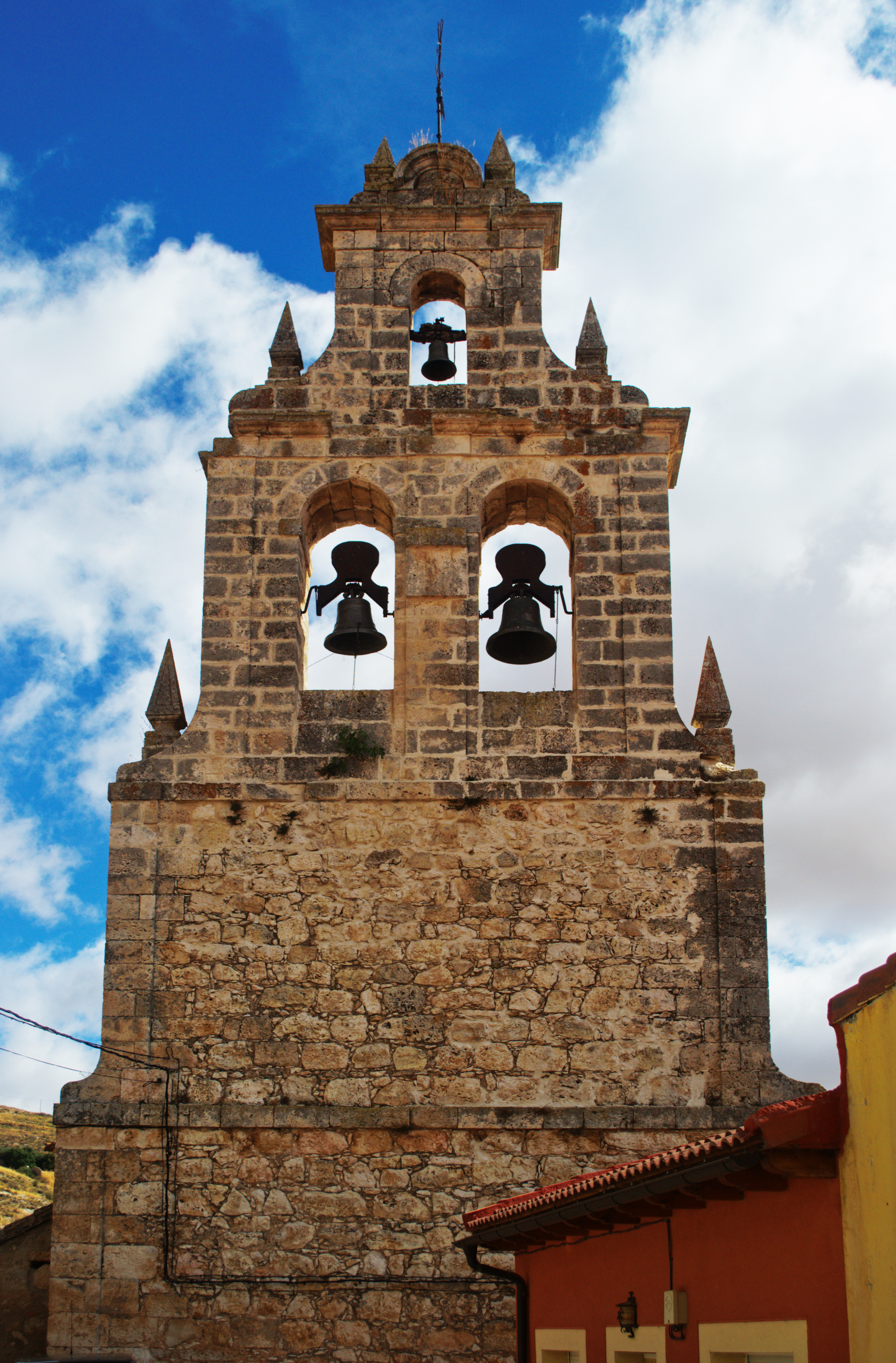 Bell tower of the church of San Miguel Arcángel in Argecilla (Guadalajara, Spain).